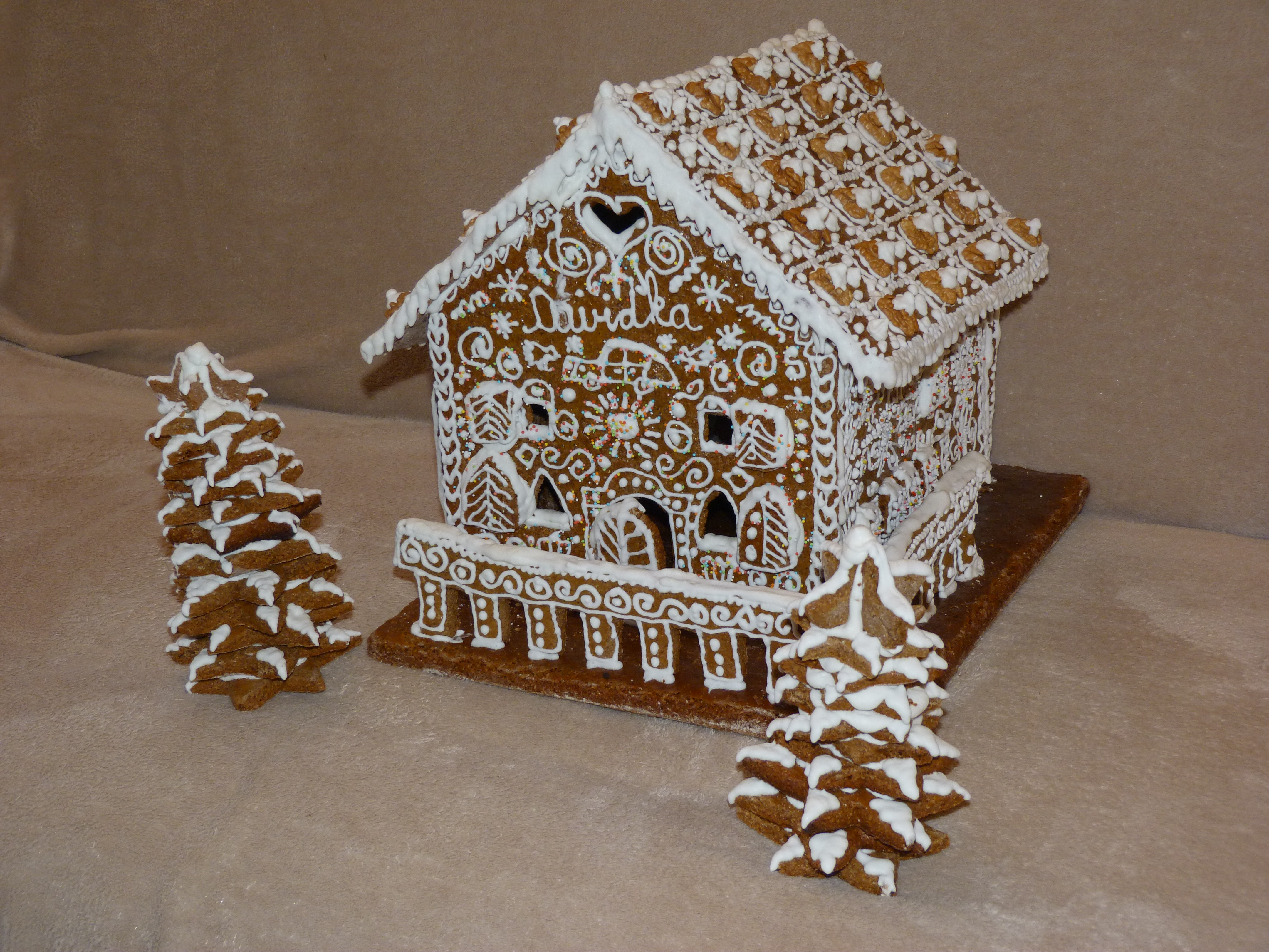 Live on the 26th of December 2014. Christmas Eve. The Birth of the Sun. Budapest, Buda part of the town. Gingerbread house, made for the family, gathering on Cristmas Eve. ©© Derzsi Elekes Andor, Budapest, 2014, Published in the Metapolisz DVD line. You are authorised to use this vid under Creative Commons – even for commercial, for profit purposes. The photo must be attributed to Derzsi Elekes Andor. All of the photos and vids in the Metapolisz DVD line are under Creative Commons and can be used even for commercial – for profit – purposes. Recommended Citation Derzsi Elekes Andor: Metapolisz DVD line